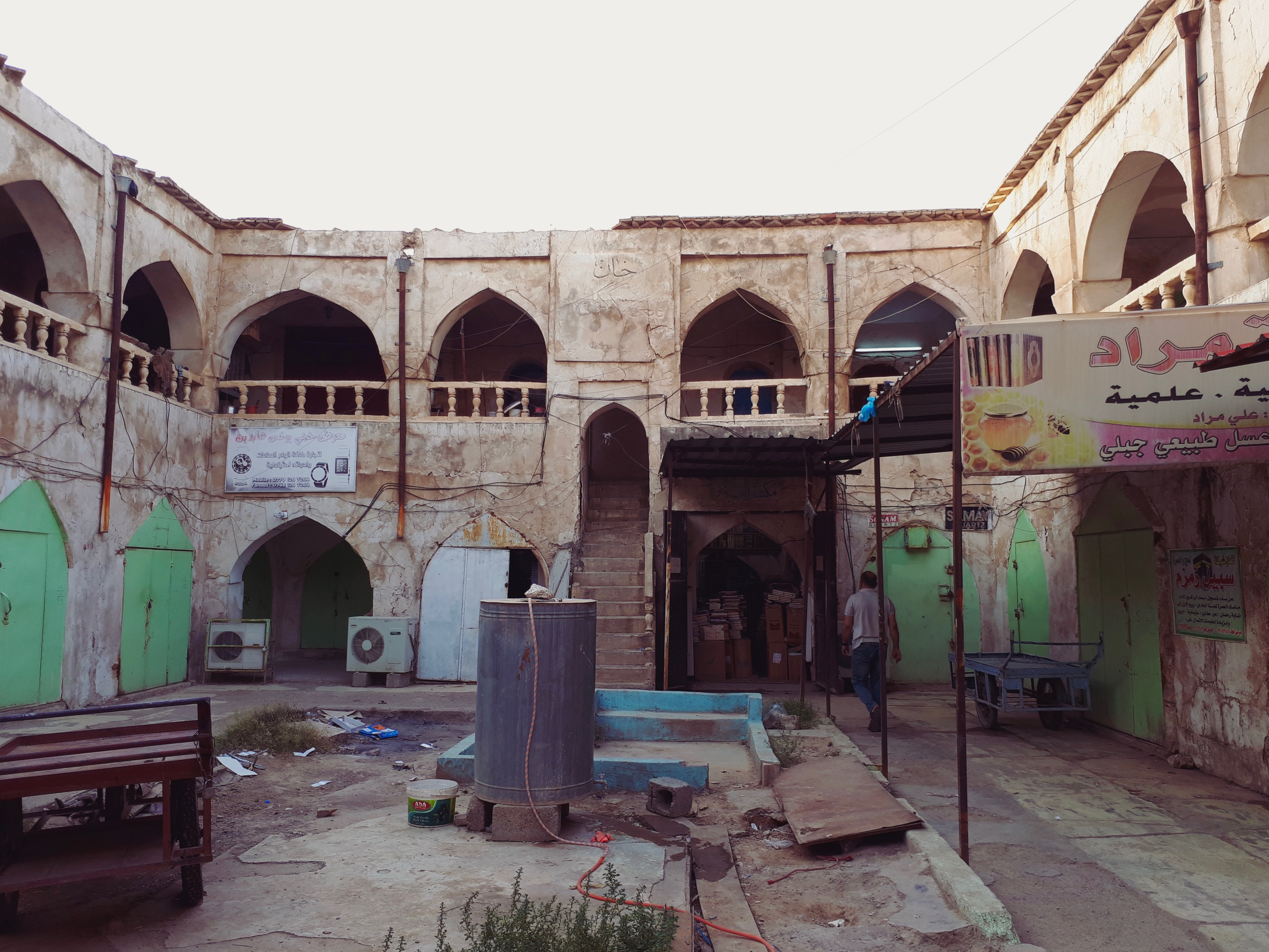 Caravanserai in Kirkuk